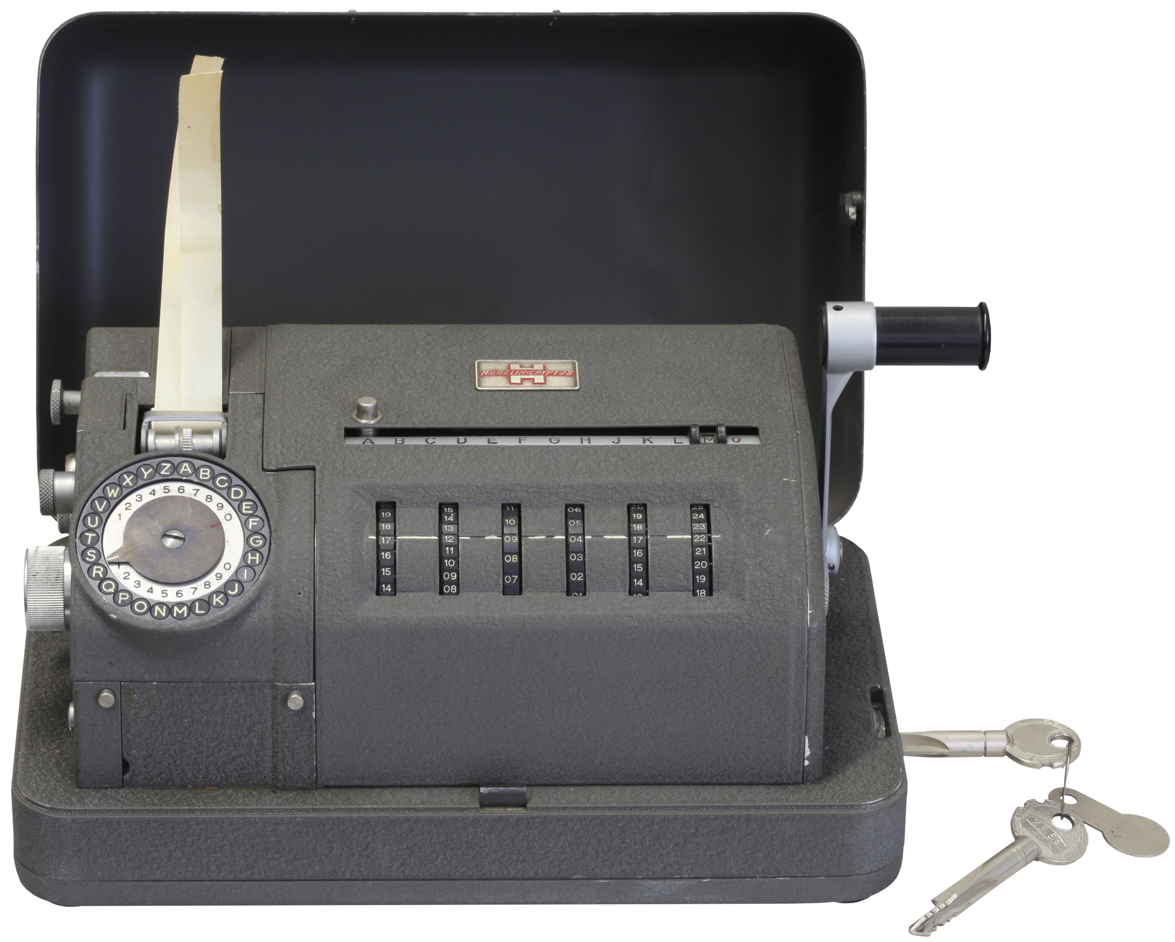 Hagelin CX-52. Cryptography collection of the Swiss Army headquarters The making of this document was supported by Wikimedia CH. (Submit your project!) For all the files concerned, please see the category Supported by Wikimedia CH.